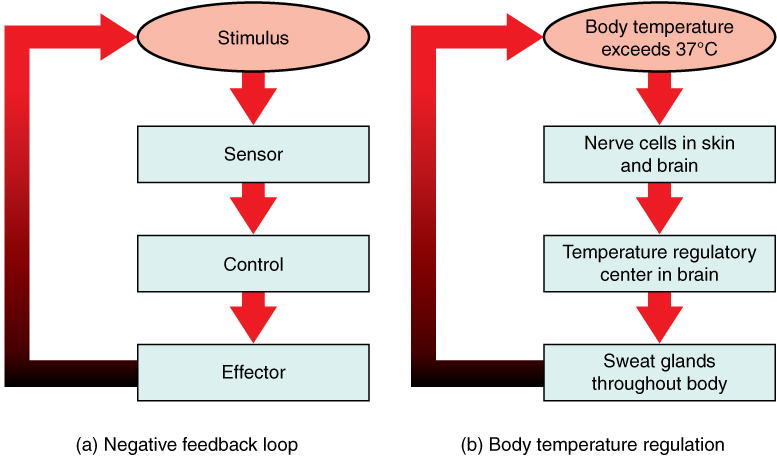 Caption: In a negative feedback loop, a stimulus—a deviation from a set point—is resisted through a physiological process that returns the body to homeostasis. (a) A negative feedback loop has four basic parts. (b) Body temperature is regulated by negative feedback. Speficic URL